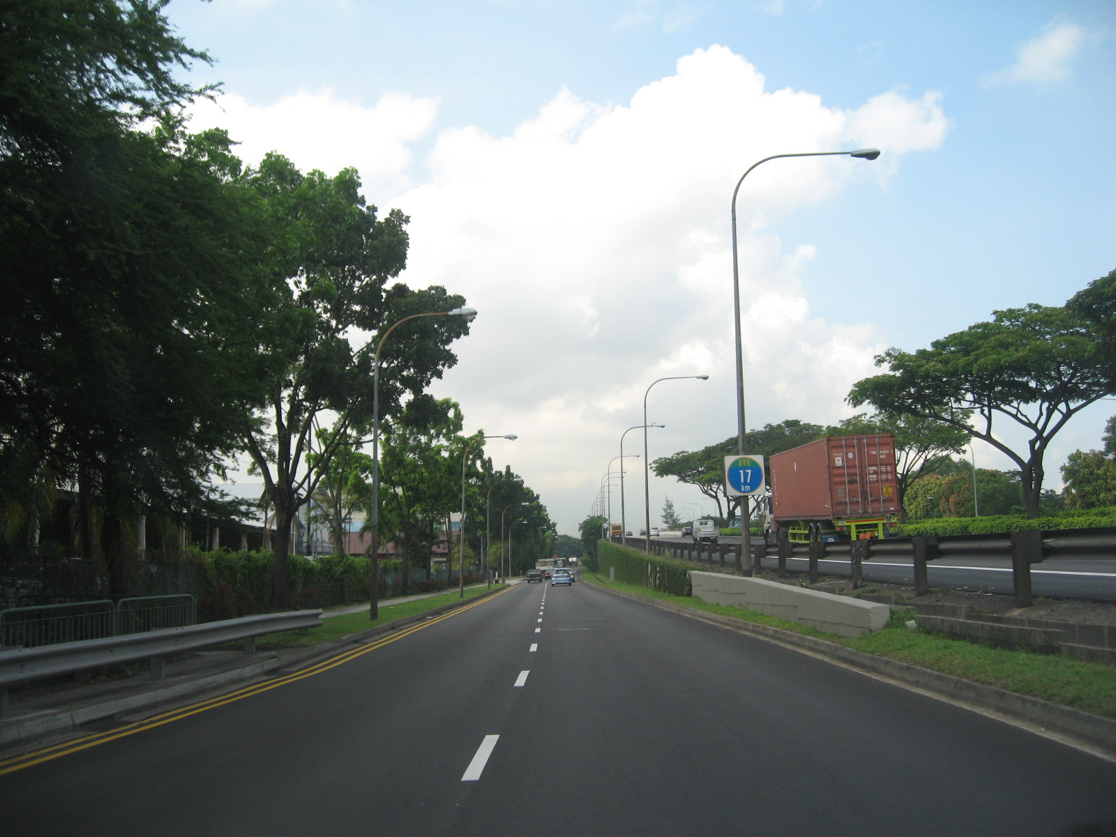 Jalan Ahmad Ibrahim, Singapore. Taken by Terence Ong in November 2006.